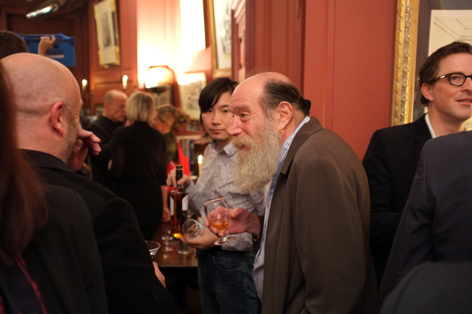 Graphic designer Lawrence Weiner at TYPO London 2011 conference.